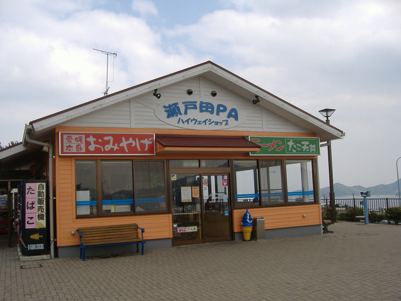 Setoda Parking Area (Onomichi, Japan)